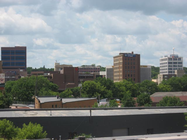 Downtown Sioux Falls, South Dakota, USA. Looking west from the 10th Street viaduct.